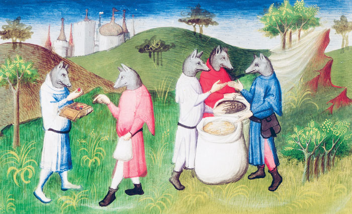 The Andaman Islands in the Bay of Bengal were said to be inhabited by wolf-headed people, who were depicted in a “book of wonders” produced in Paris in the early 15th century. Such manuscripts, commissioned by wealthy patrons, presented tales of distant lands for the entertainment of their readers. BIBLIOTHEQUE NATIONALE / ARCHIVES CHARMET / BRIDGEMAN ART LIBRARY (BOUCICAUT MASTER)